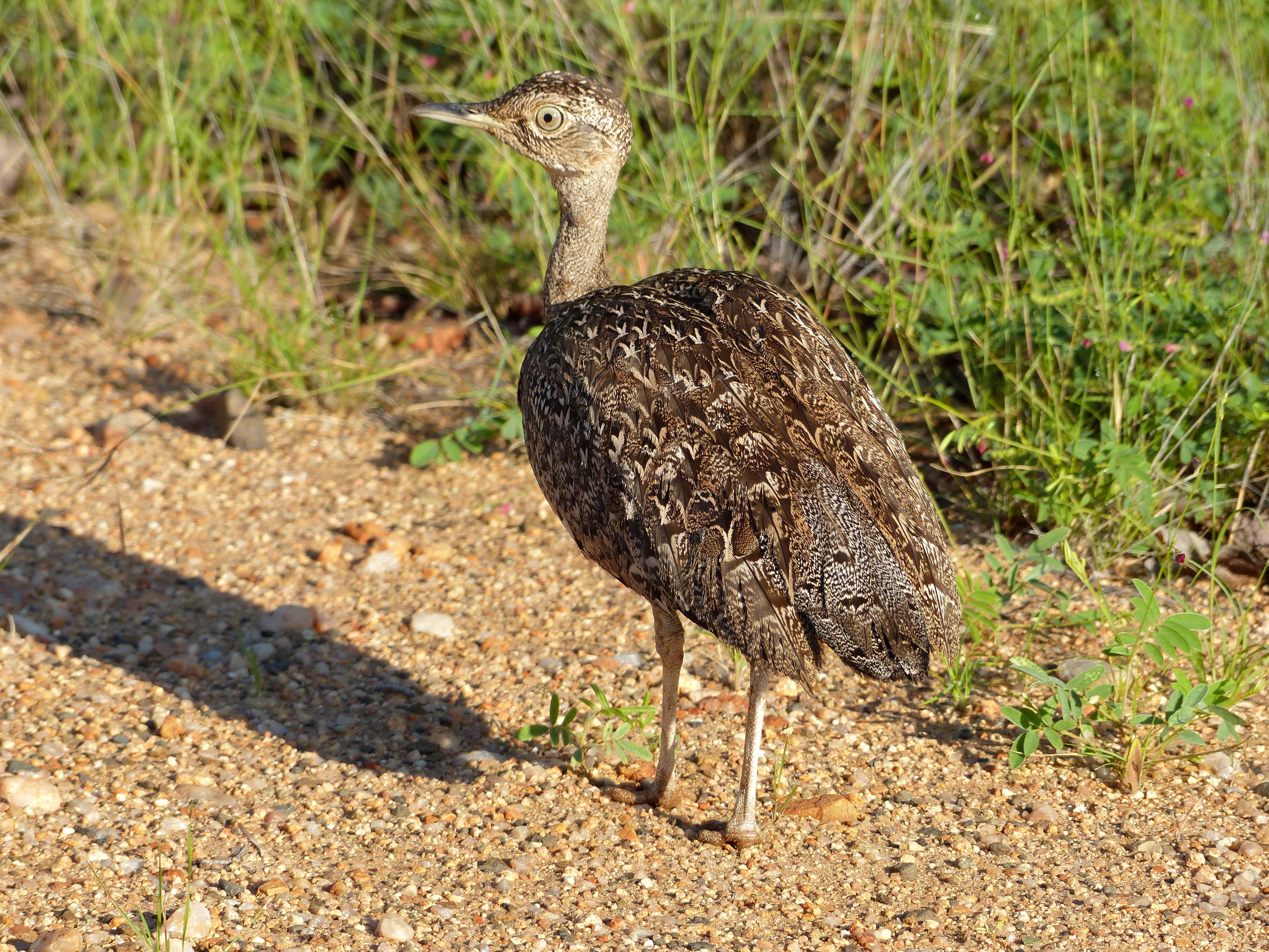 S131 Road West of Letaba, Kruger NP, SOUTH AFRICA